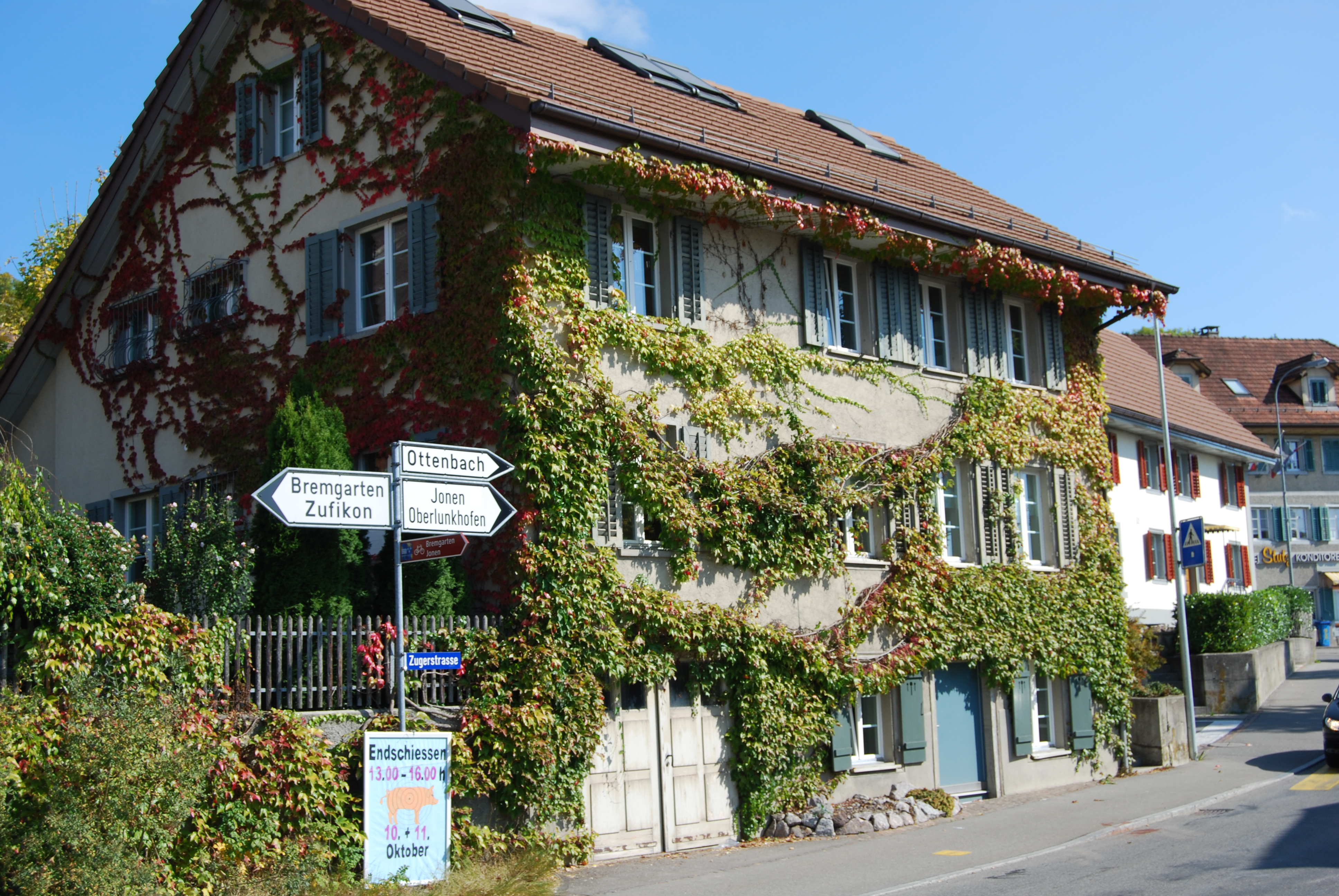 Unterlunkhofen, canton of Aargau, SwitzerlandEsperanto: Unterlunkhofen, Kantono Argovio, Svislando